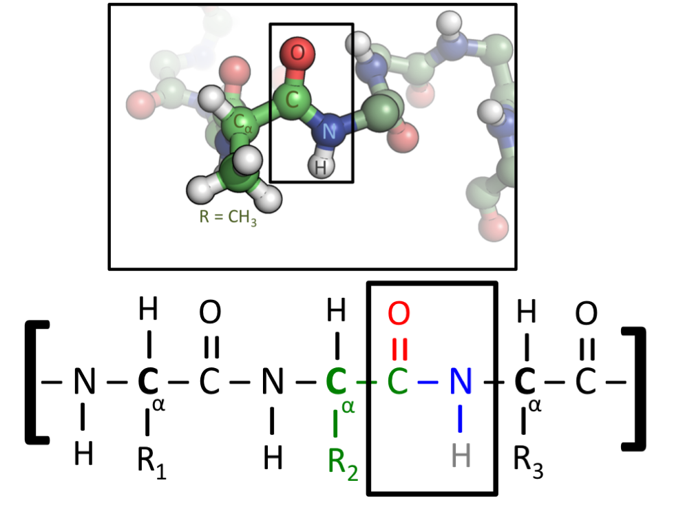 Alternate version of File:PEPTIDE-BOND-FIGURE.png